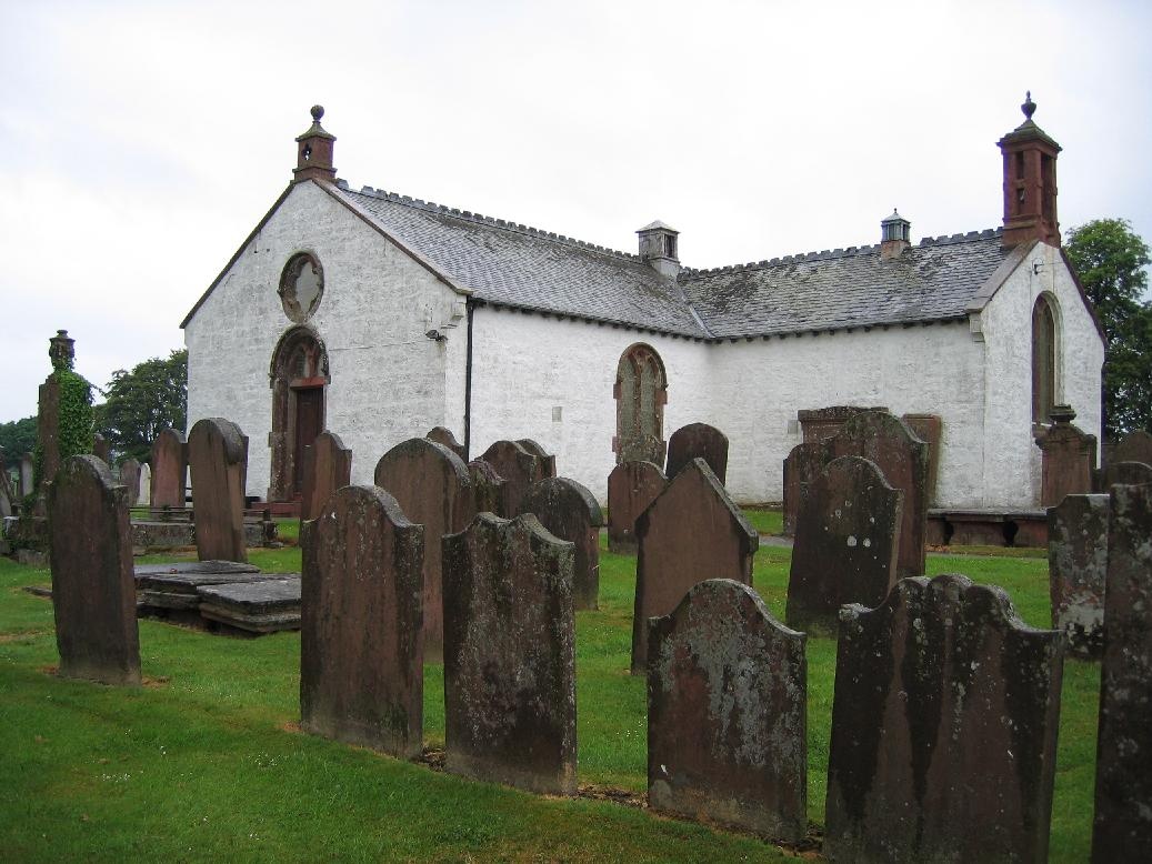 The parish church of Ruthwell, Dumfries, Scotland.